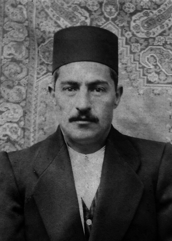 Salim Khan is a well known Persian vocalist and Ostad (master) of Persian traditional music during the Qajar and Pahlavi era